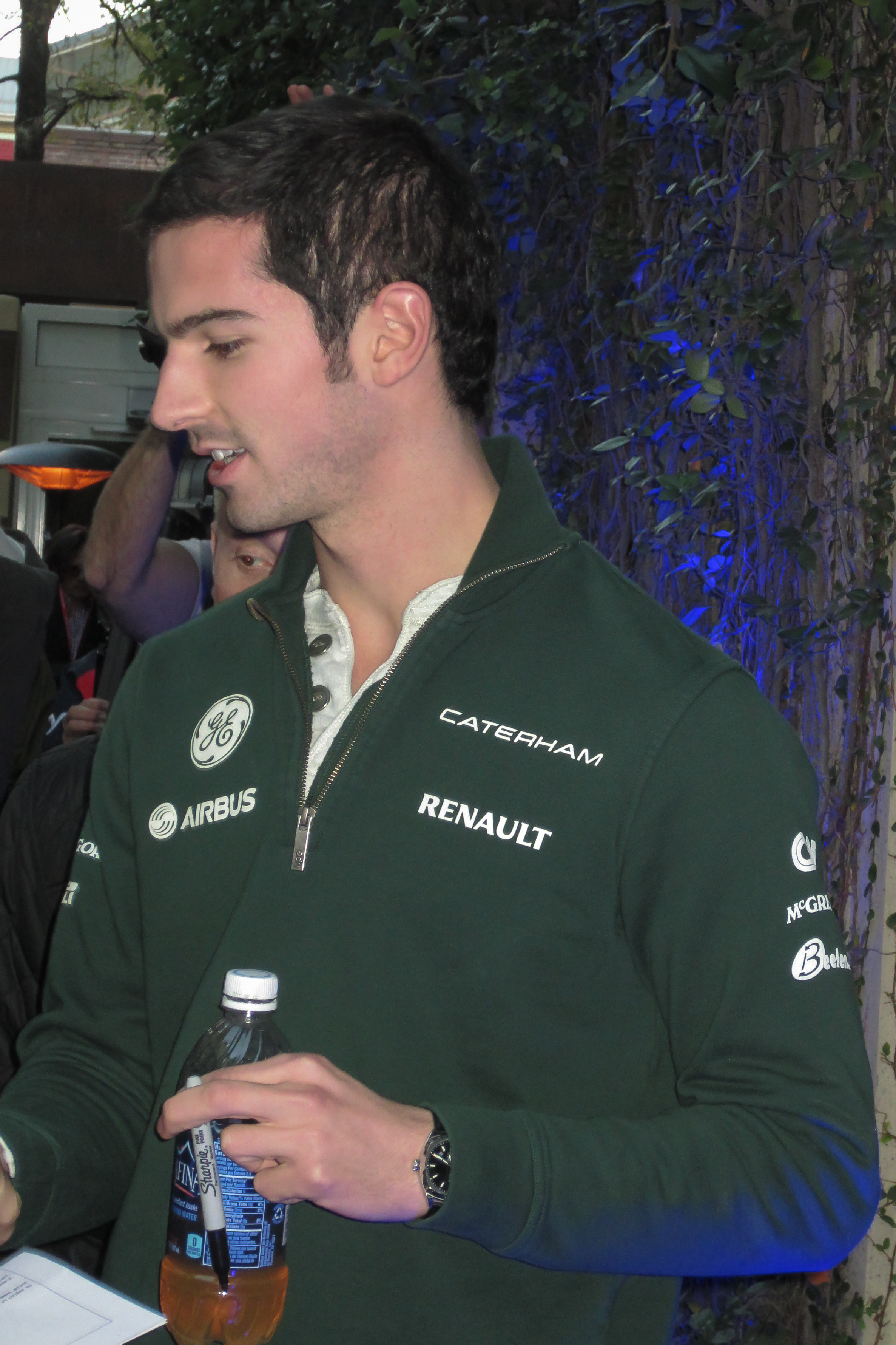 Alexander Rossi at the 2013 US Grand Prix FOTA Fan Forum. Cedar Street Courtyard, Austin, Texas.